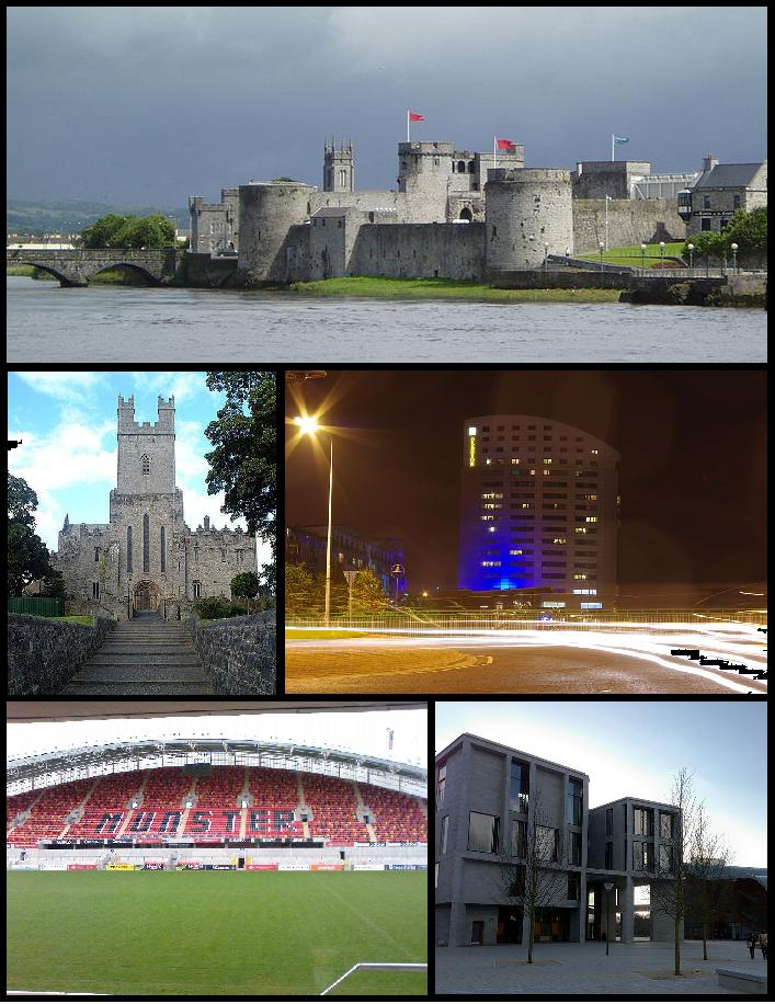 This is a collage of Limerick City I put together with images from Wikipedia Commons. The photos included are as follows: File:King John's Castle in Limerick.jpg File:Thomond Park.jpg File:Clarion Hotel Limerick Ireland at Night.jpg File:St Marys Cathedral, Limerick - .uk - 305007.jpg File:The School of Medicine at the University of Limerick.jpg